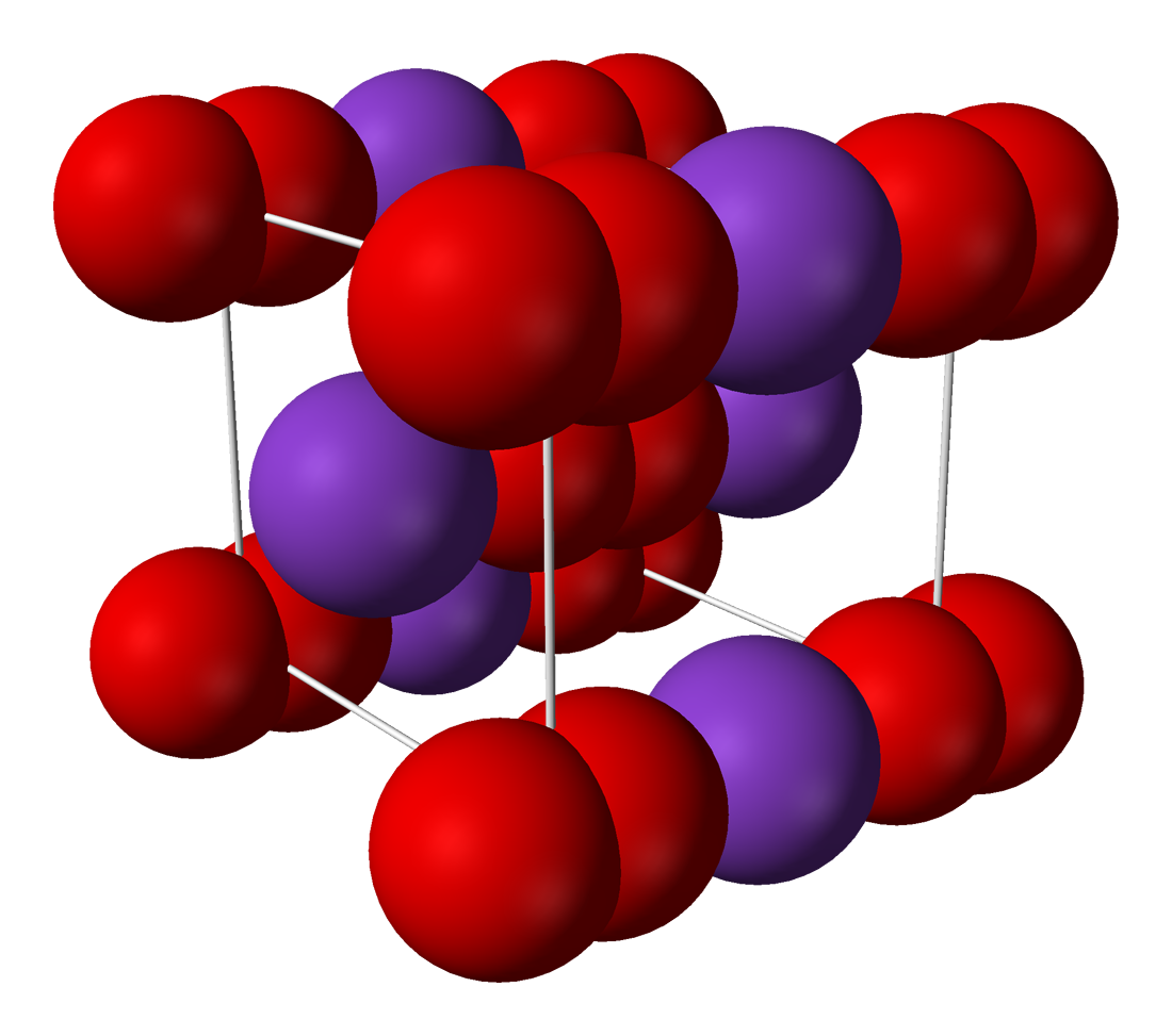 Ball-and-stick model of the unit cell of potassium superoxide, KO2